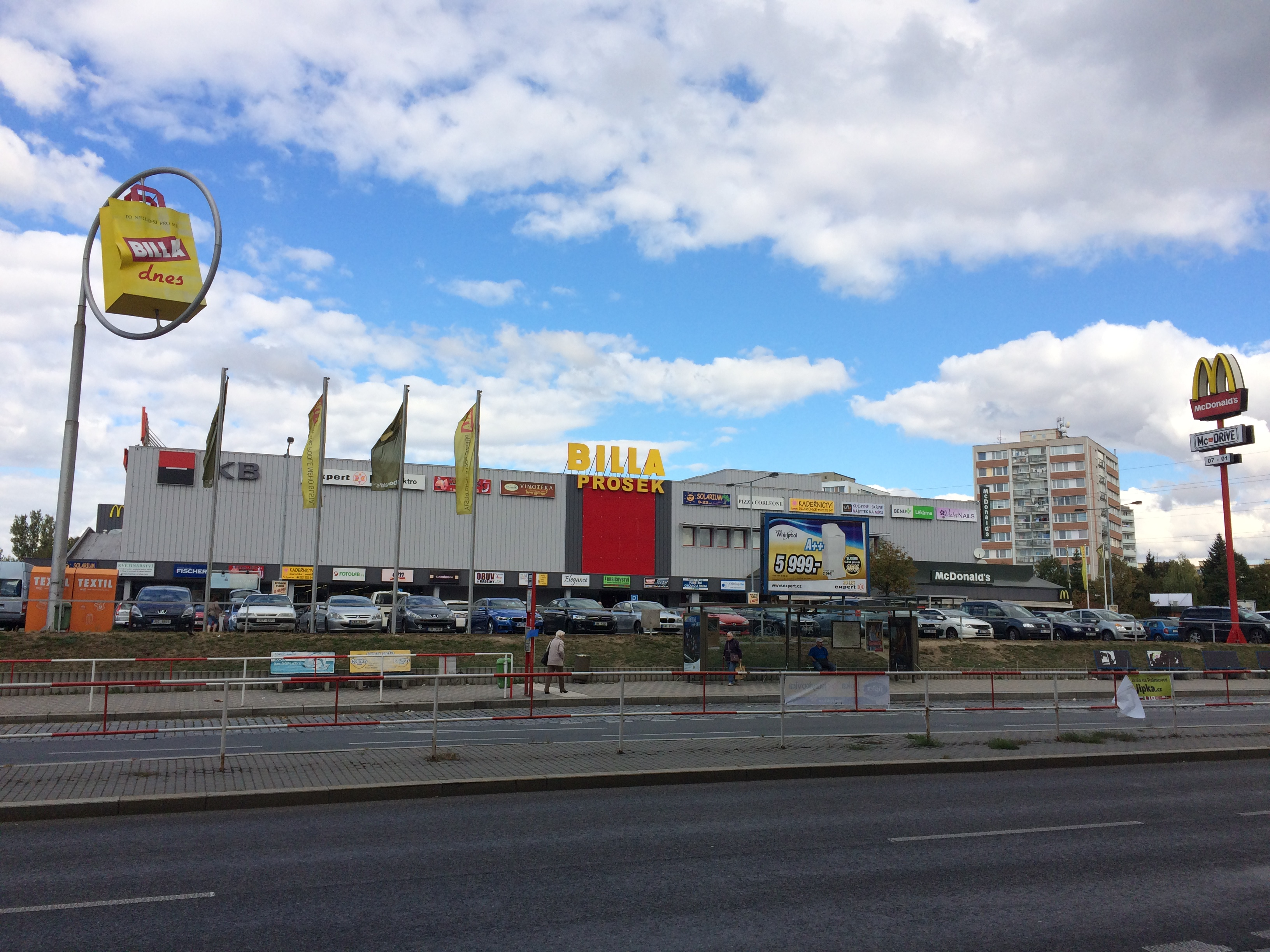 Prague-Prosek, the Czech Republic. Vysočanská 382/20, a shopping centre.